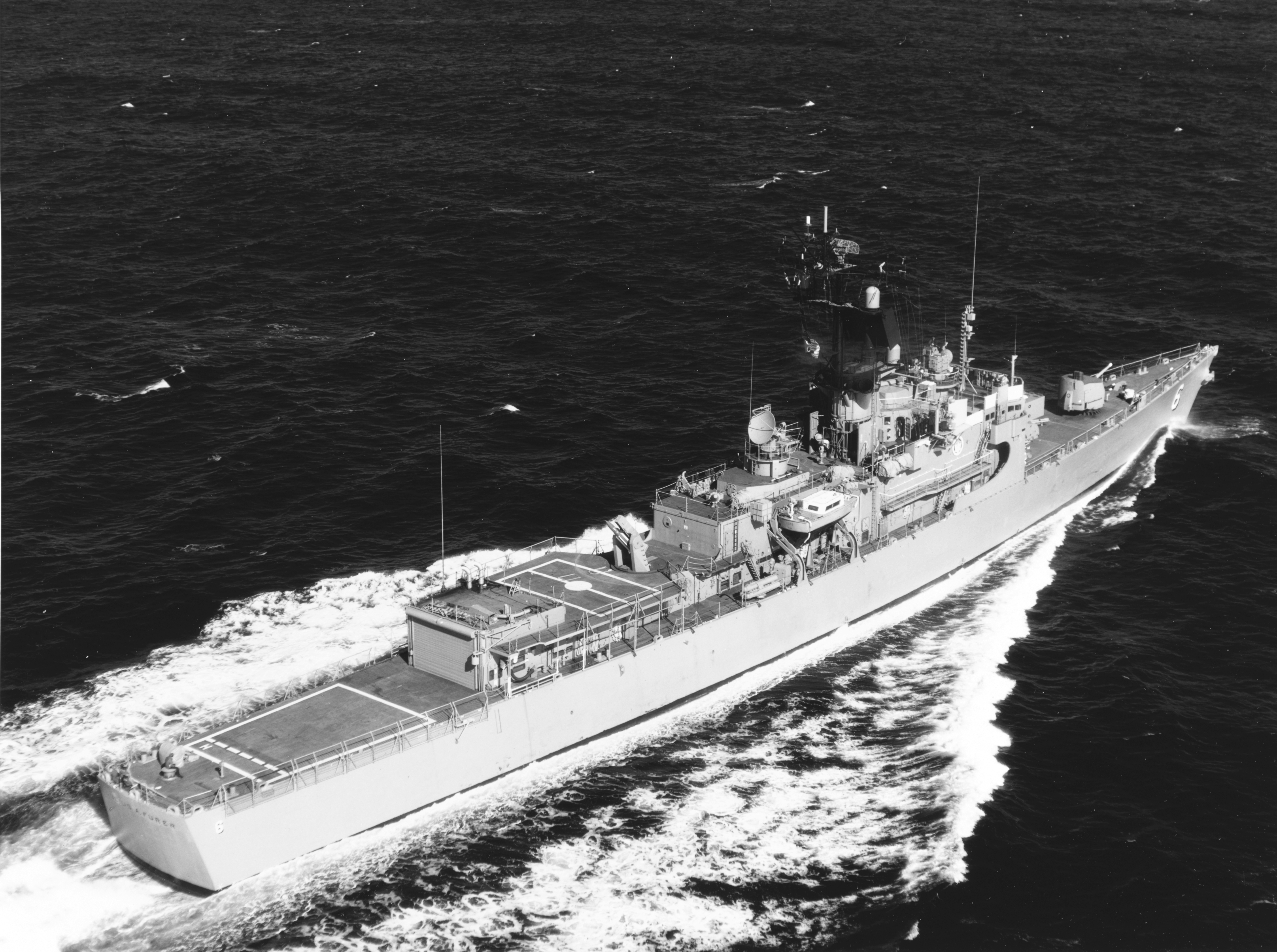 The U.S. Navy guided missile destroyer escort USS Julius A. Furer (DEG-6) underway on 12 October 1971.